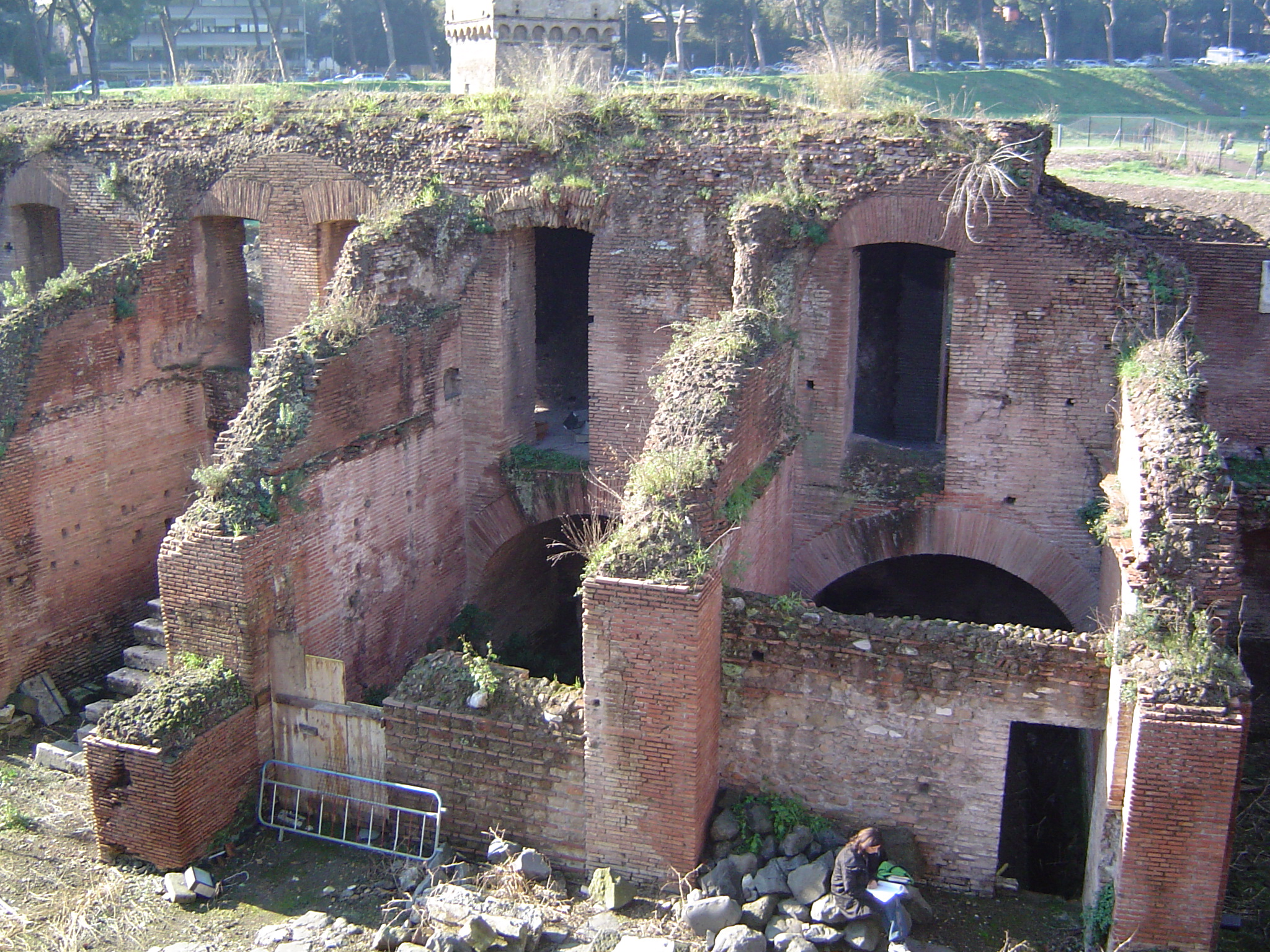 Arches of the Circus Maximus in Rome, Italy Made by Joris van Rooden, The Netherlands on 06-01-2006